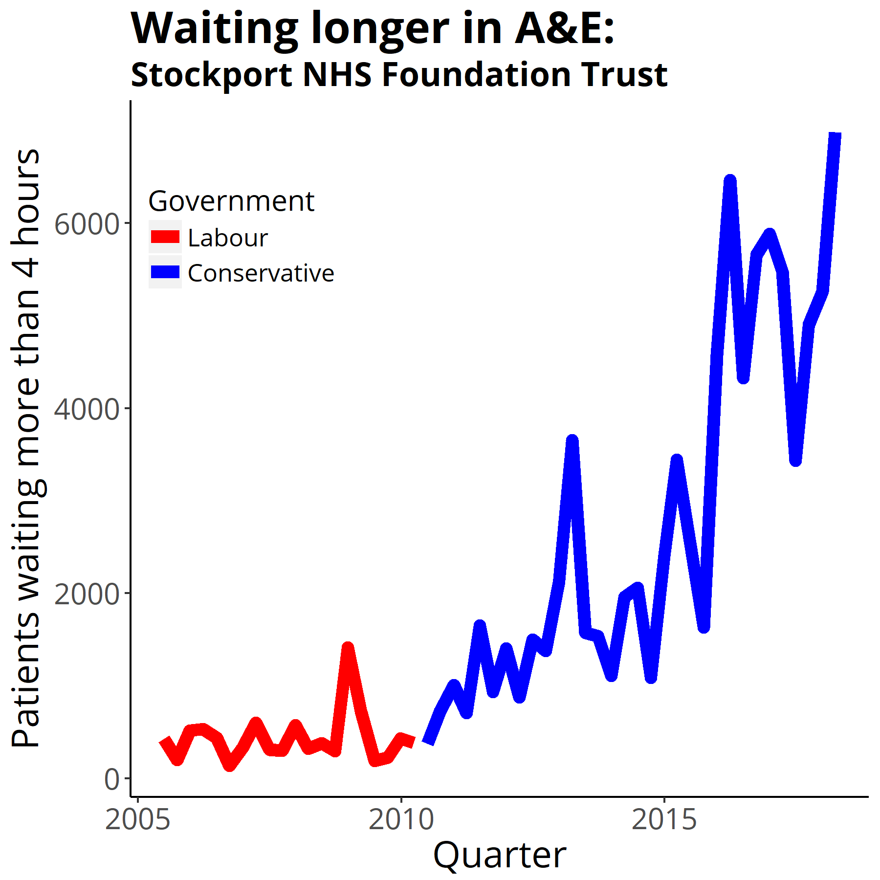 Four-hour target in the emergency department quarterly figures from NHS England Data from